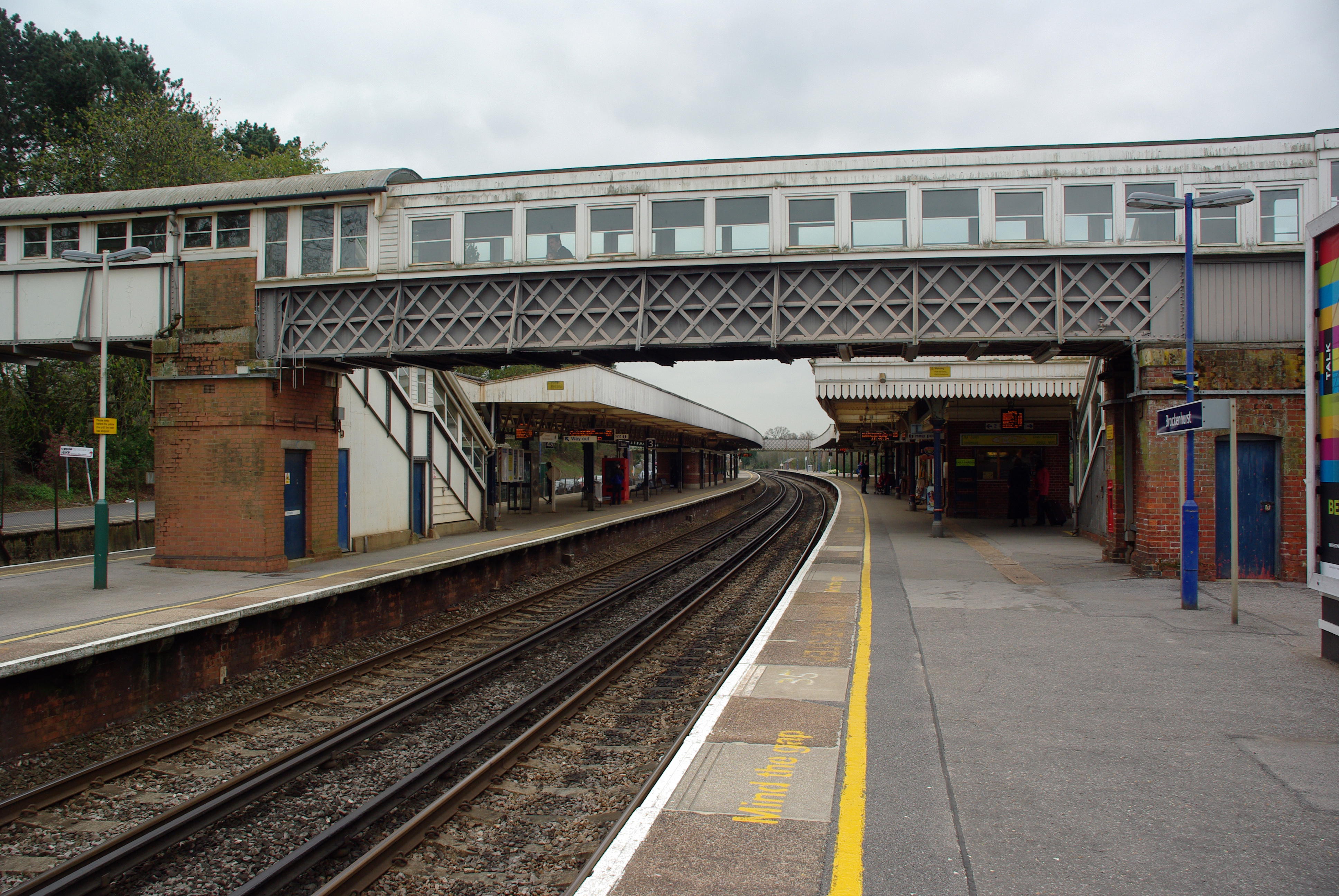 The passenger bridge at Brockenhurst railway station.